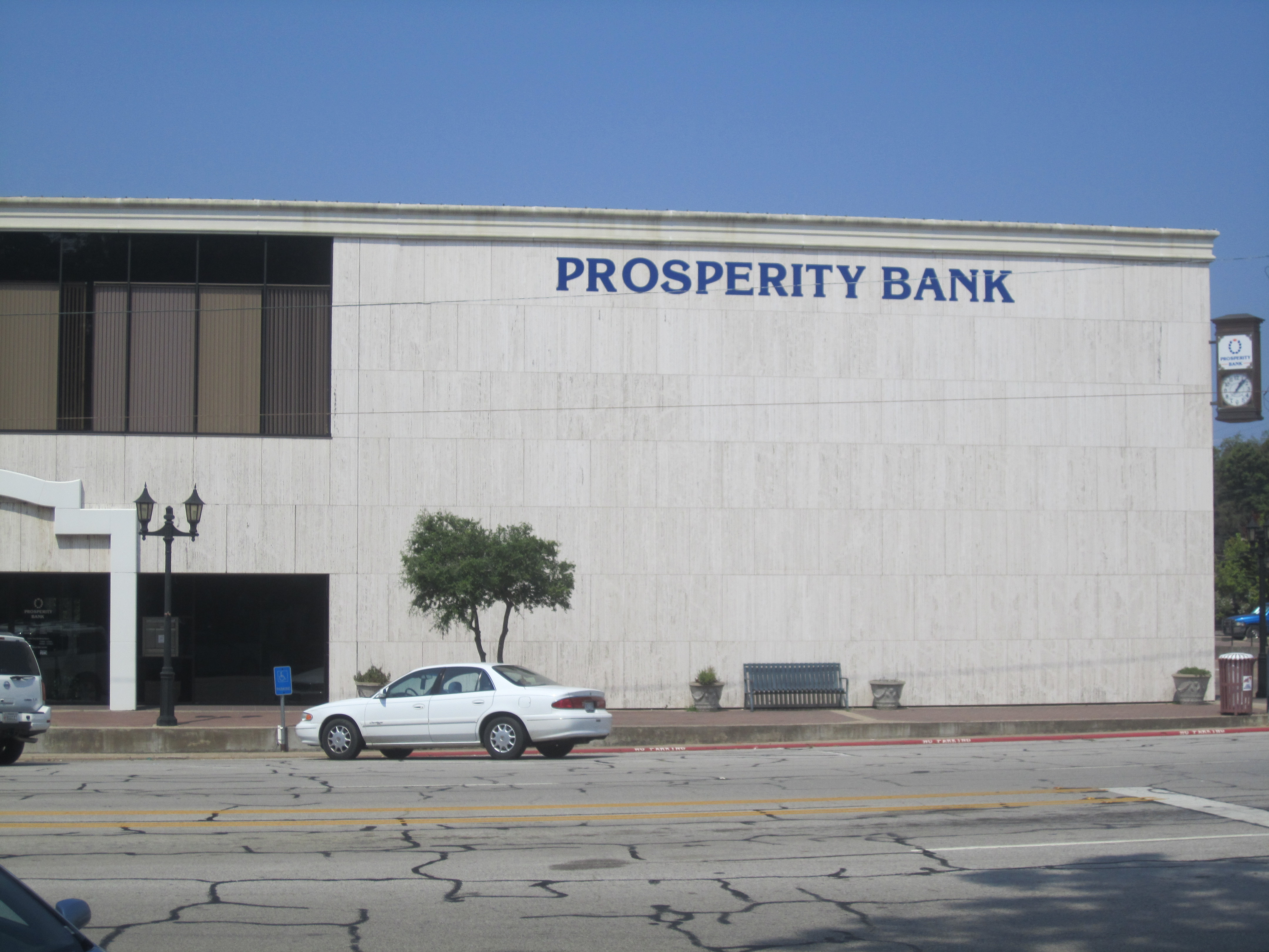 I took photo with Canon camera in Athens, TX.